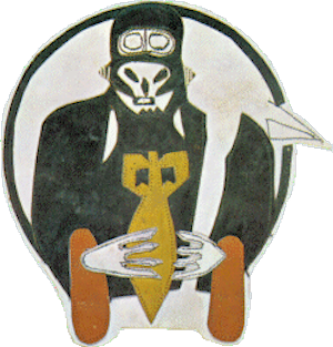 Emblem of the 375th Bombardment Squadron